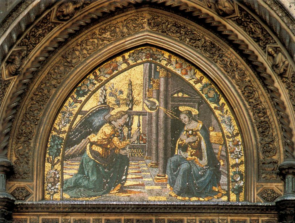 The Annunciation